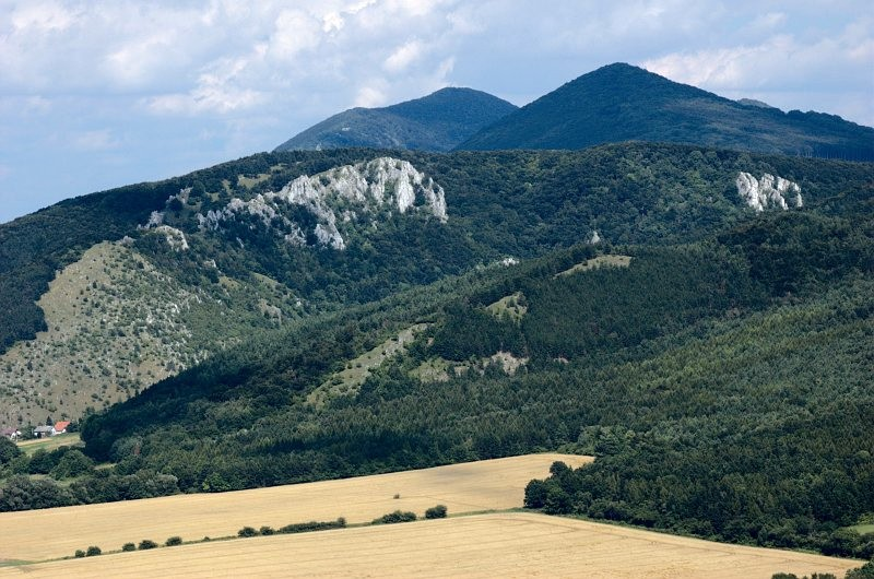 Záruby, Veterlín and Kršlenica, view from Plavecký hrad